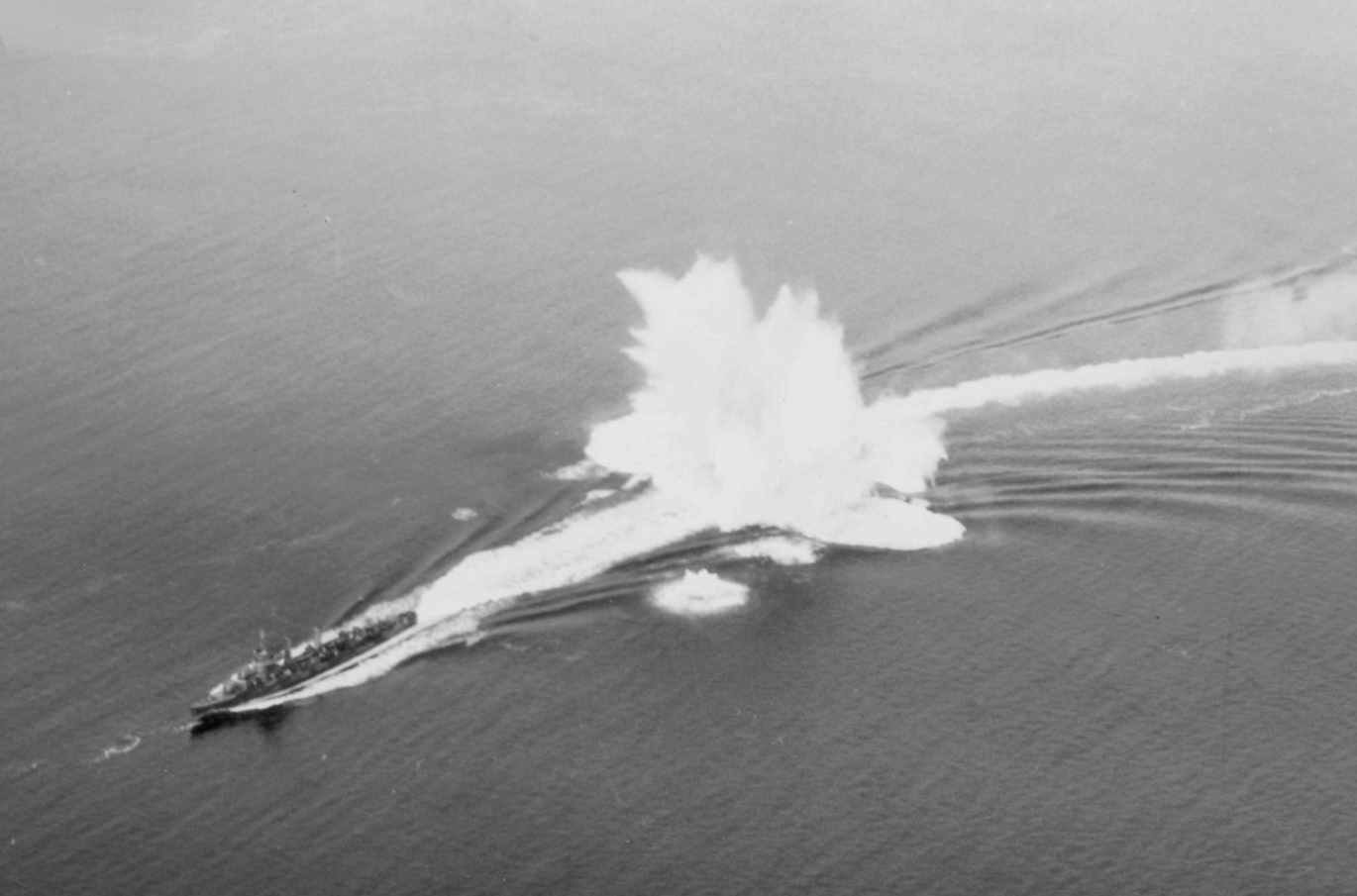 In a view taken from a Hall PH-3 flying boat operating from Coast Guard Air Station (CGAS) Brooklyn, New York (USA), a U.S. Navy destroyer (Benson or Gleaves class) drops depth charges during operations in the Atlantic Ocean, 1942.